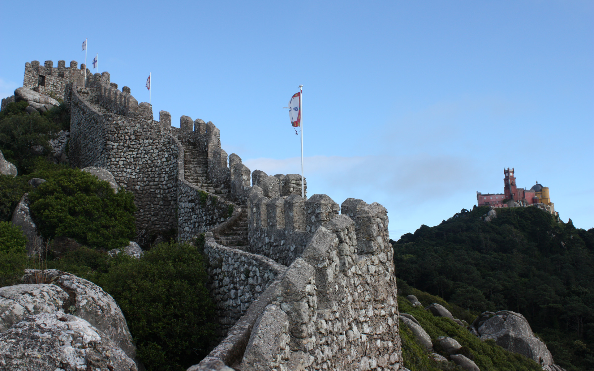 A picture of Castle of the Moors (Castelo dos Mouros) in Sintra, Portugal